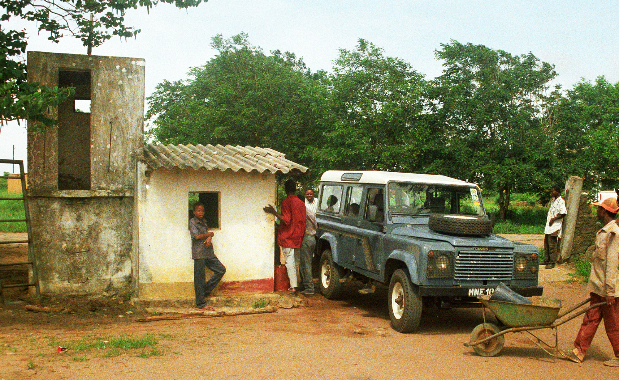 Refueling station in Mueda, Mozambique c. 1995 UN vehicle stopped at a gas station in Mueda where fuel is hand pumped by local attendant. Image taken with Canon EOS 35mm camera. Negative scanned with Nikon Coolscan V ED.